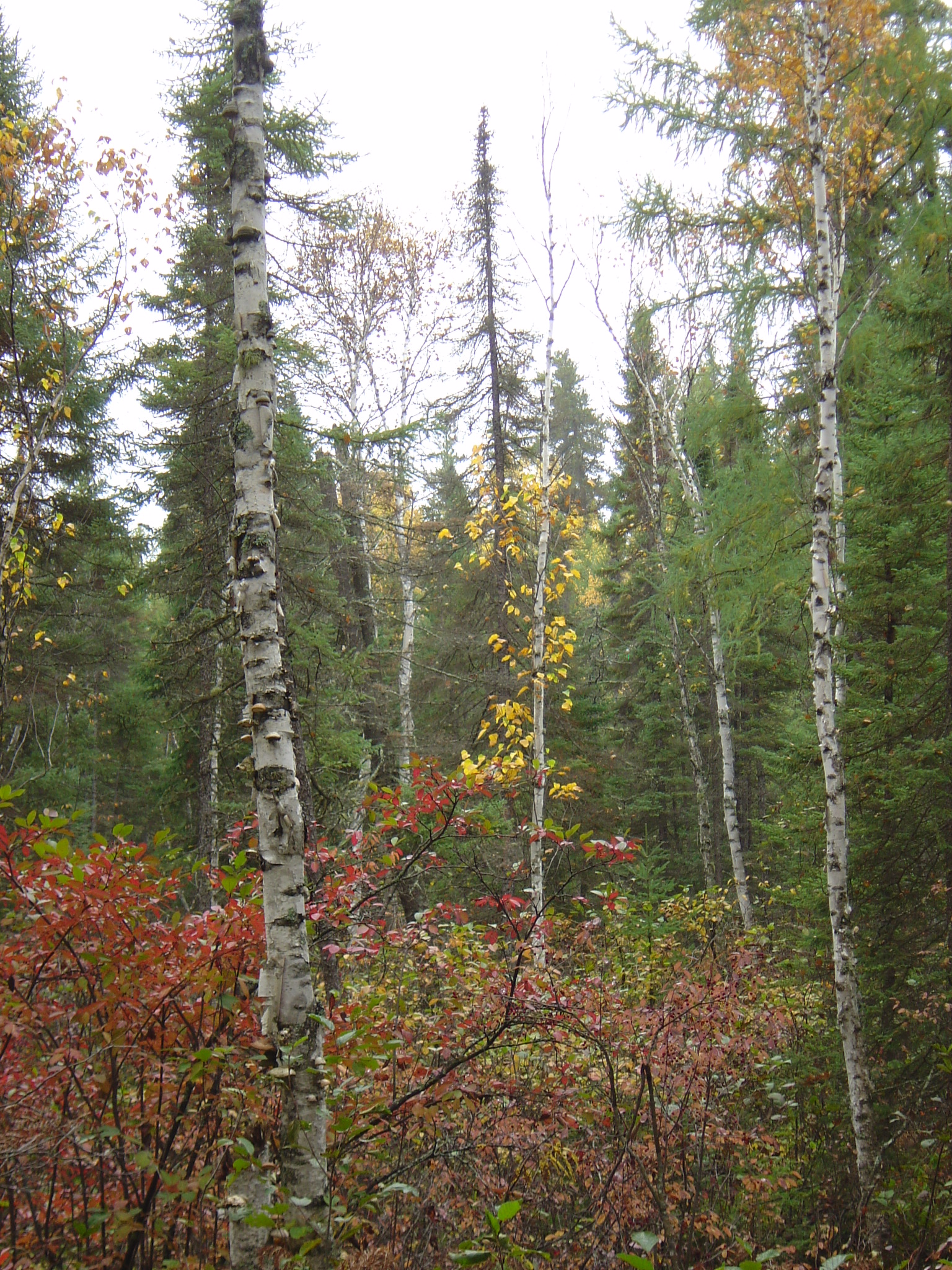 Foret boreal Author: Pascal Gauthier